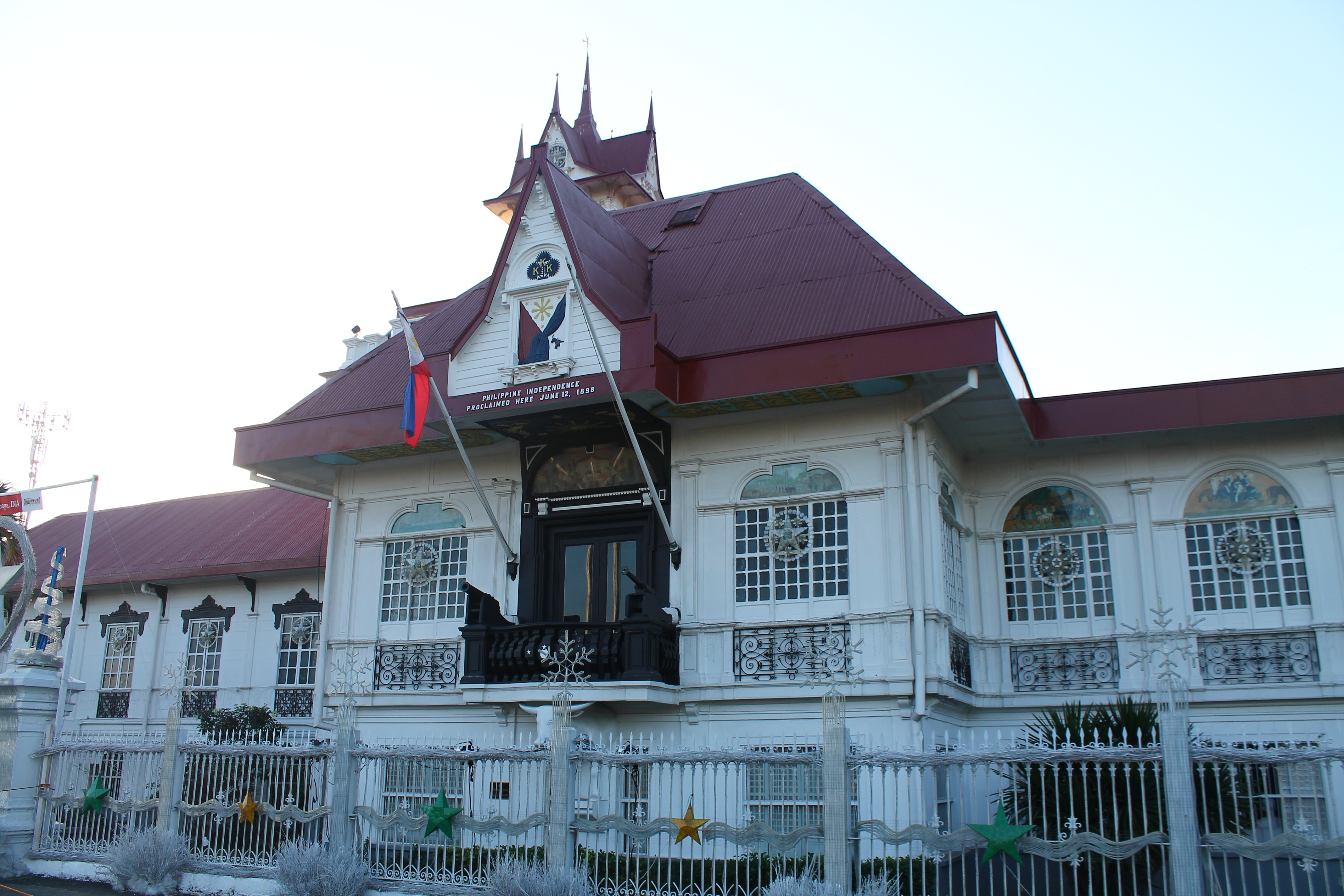 The venue of the Declaration of Philippine Independence